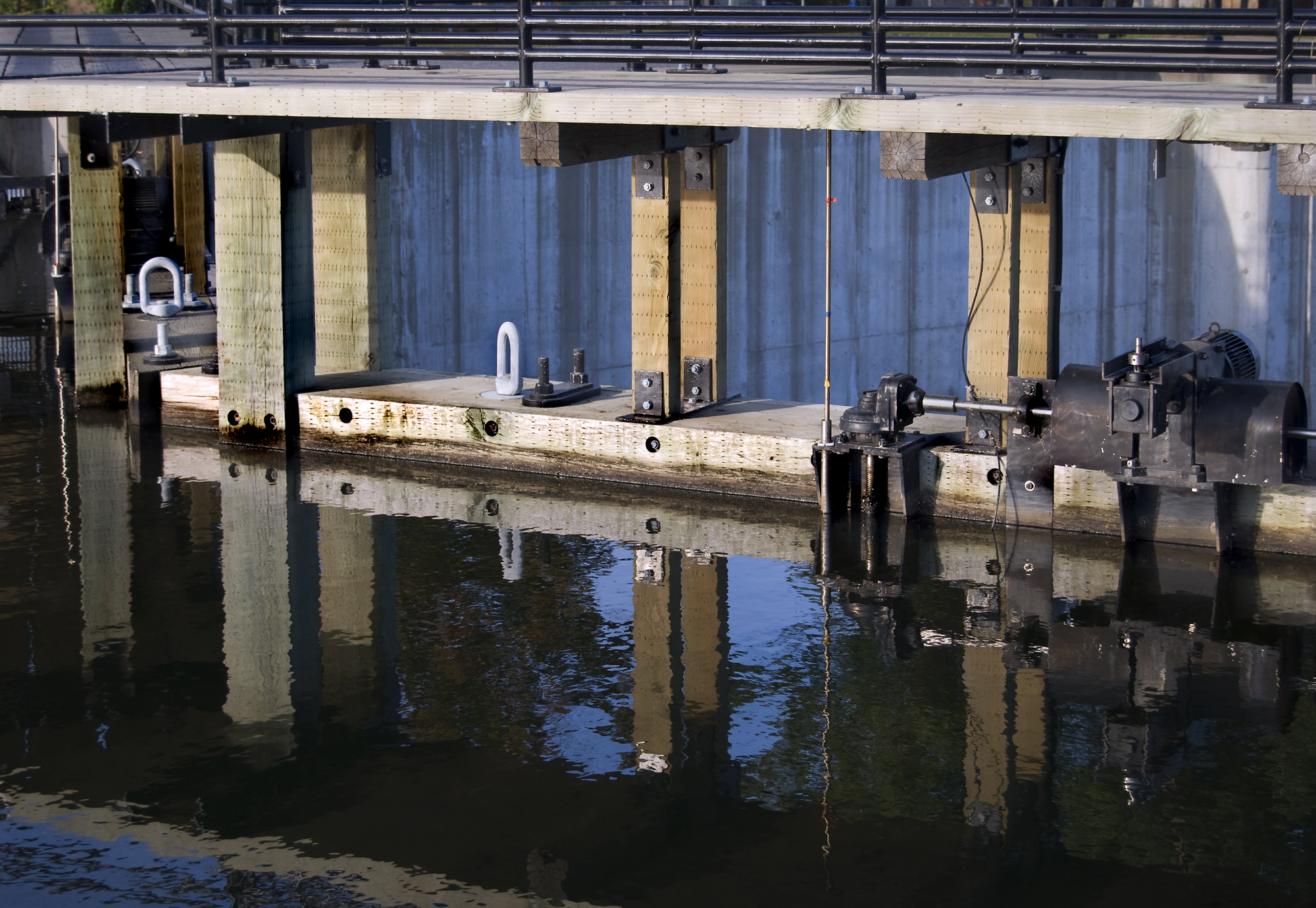 A gate lock of the Montreal Parc du Canal-de-Lachine